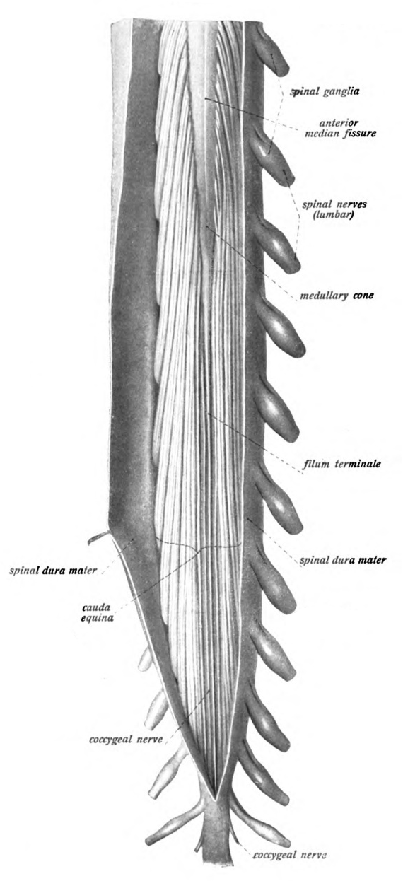 An anatomical illustration from the 1908 edition of Sobotta's Anatomy Atlas